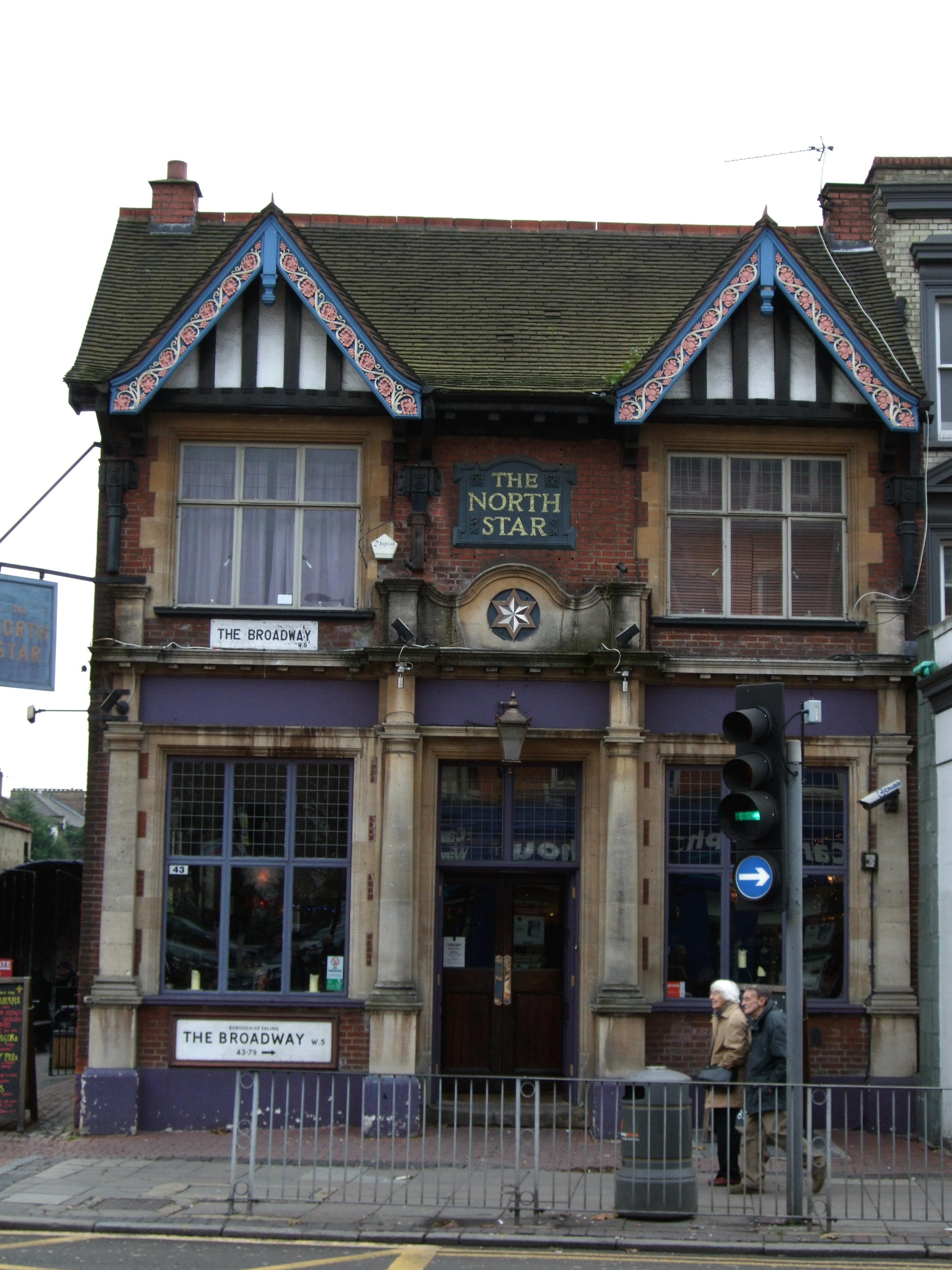 A cute building on the otherwise bland modern shopping strip by Ealing Broadway station. Address: 43 The Broadway. Owner: Mitchells and Butlers [Metro Professionals] (website). Links: Fancyapint Beer in the Evening Dead Pubs (history)